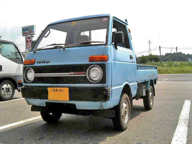 Daihatsu Hijet S65 Series in Bandai, Fukushima Japan